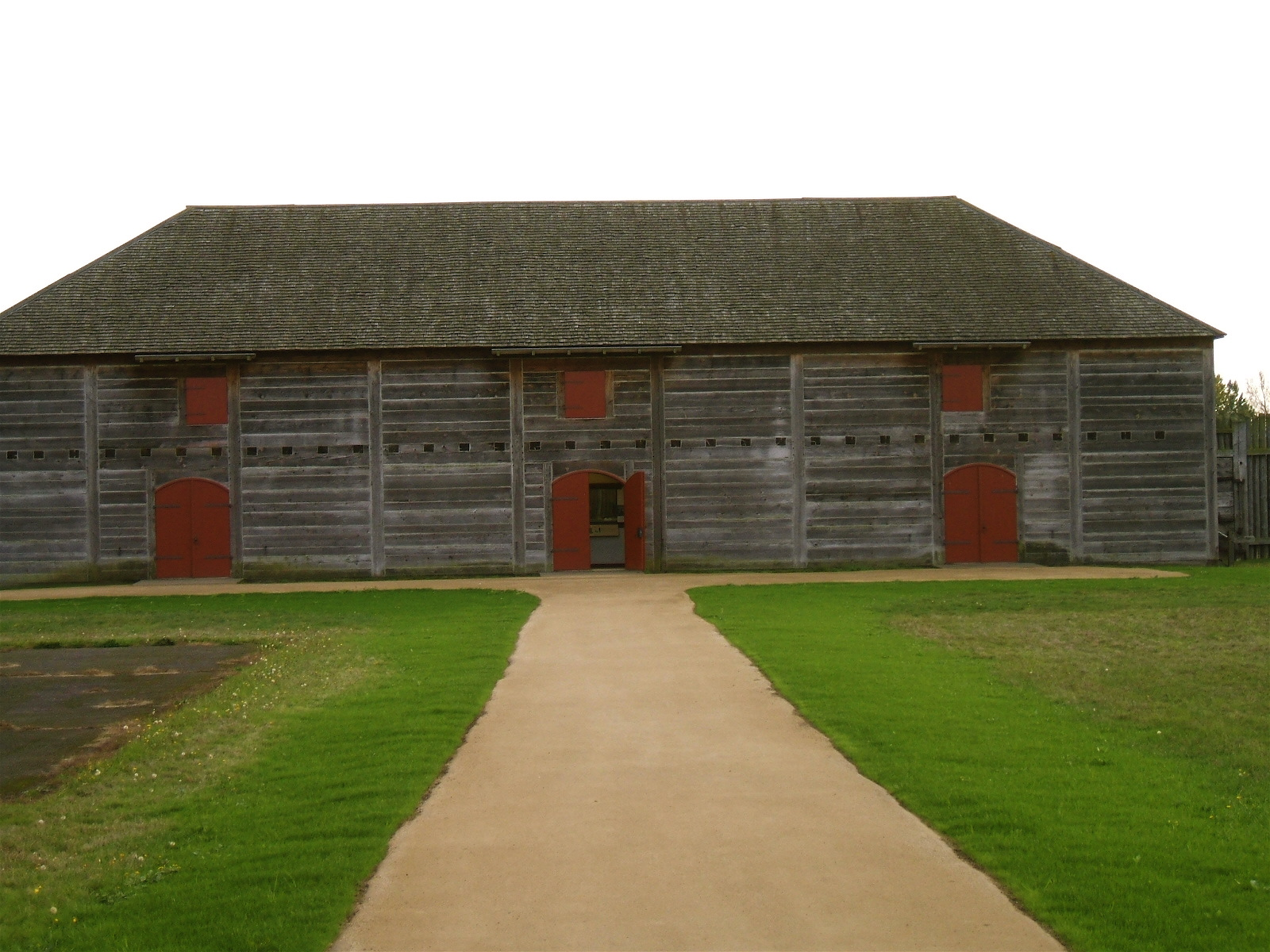 What used to be the nerve center of the fort, the Fur Warehouse was where beaver (and other animal) pelts were brought from the field, purchased or traded, bundled and prepared for shipping to England. Special tours include the fur warehouse replica which shows the intricate ways furs were traded and shipped. The main portion of the building today houses the archeological center for the fort. Visitors can watch as archeologists work on preserving and cataloging finds in the digs conducted at the fort and in its environs. Fort Vancouver National Historic Site, Washington